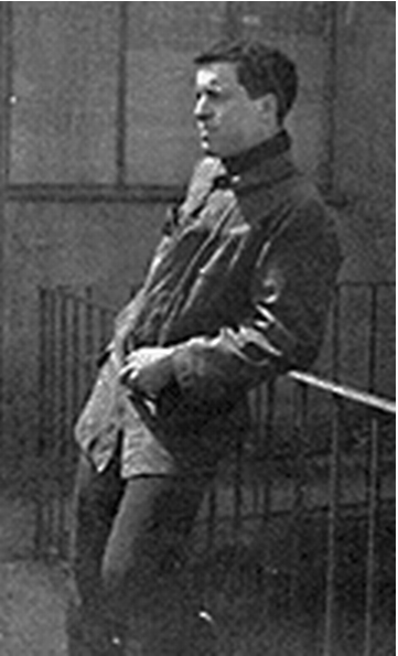 Portrait photograph of Hungarian artist Béla Czóbel, ca. 1908-09